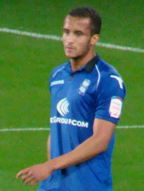 James Hurst. Image cropped from original at flickr.